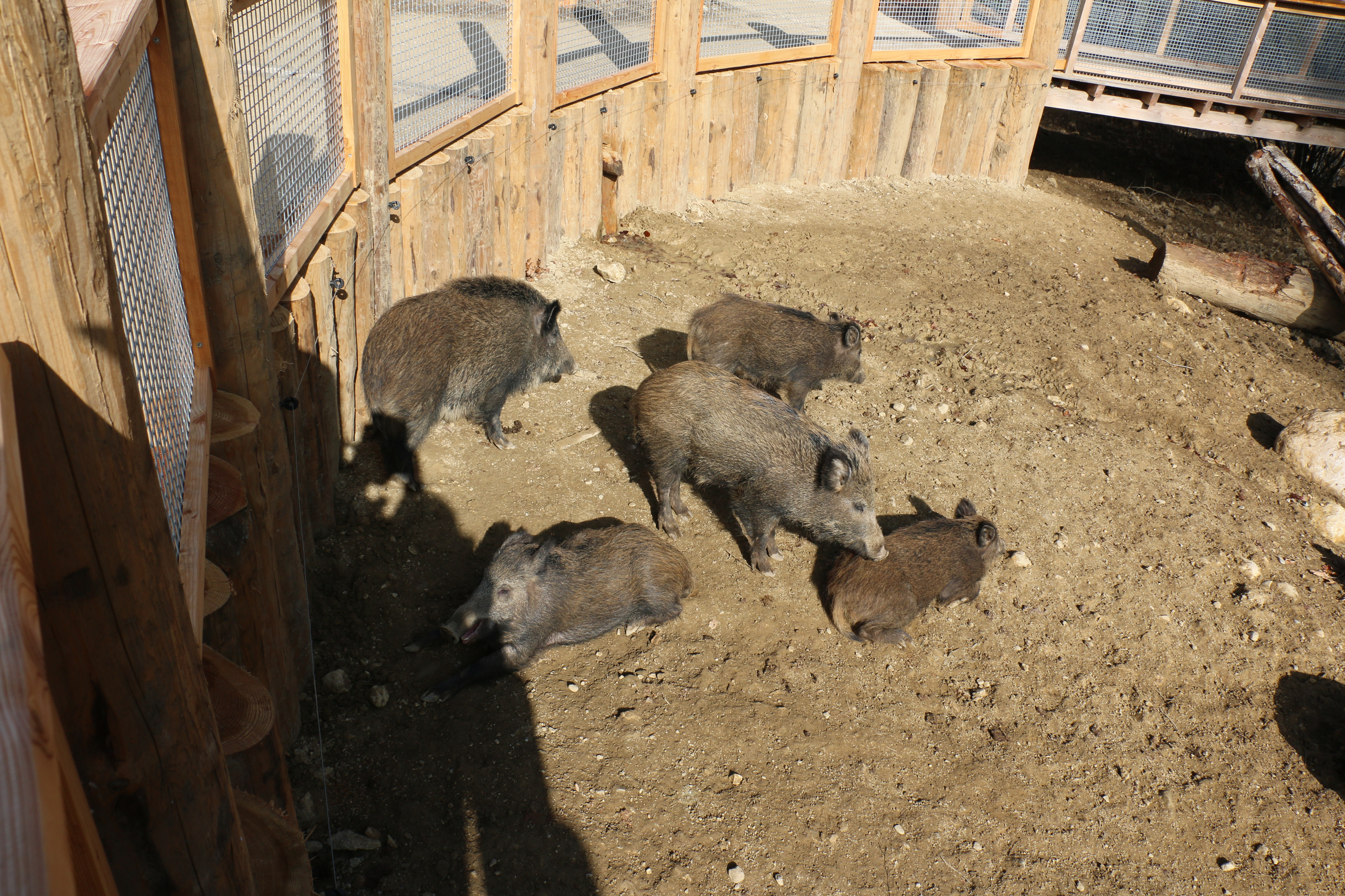 Zoo la Garenne